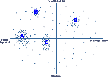 perceptual map with clusters - pillows